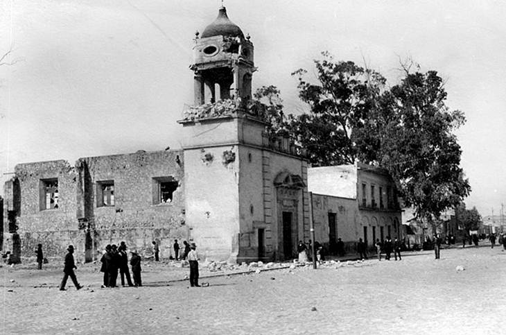 Parroquia de Campo Florido en la colonia Doctores durante la decena trágica